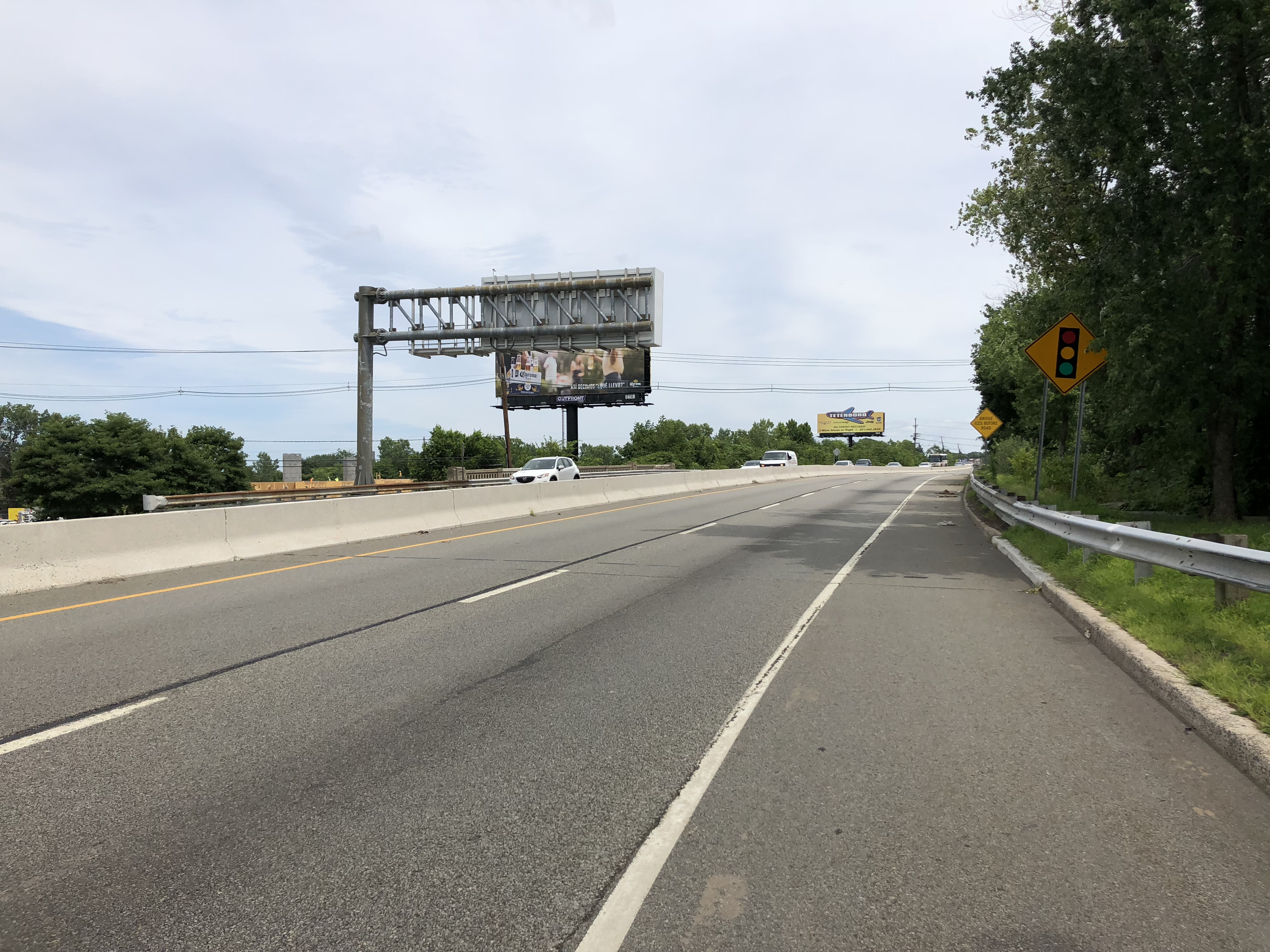 View east along U.S. Route 46 at Van Bussum Avenue in Garfield, Bergen County, New Jersey